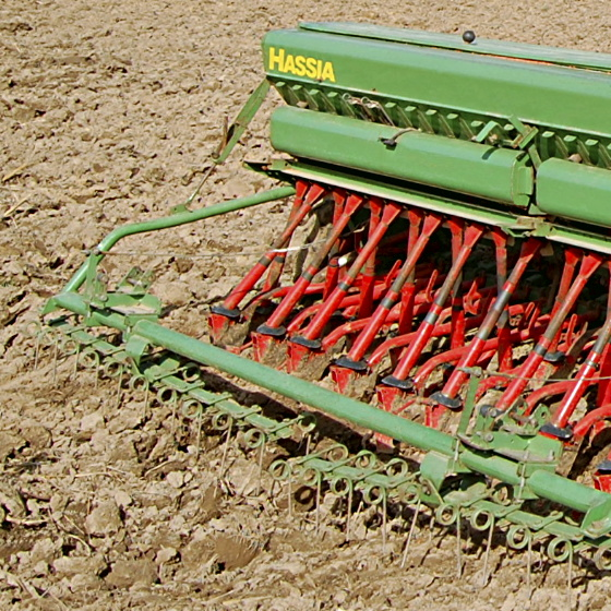 Hassia DL 300 seed drill (built 1989, 3 m working width, 24 coulters, tramline switching/control, elementary covering comb harrow)